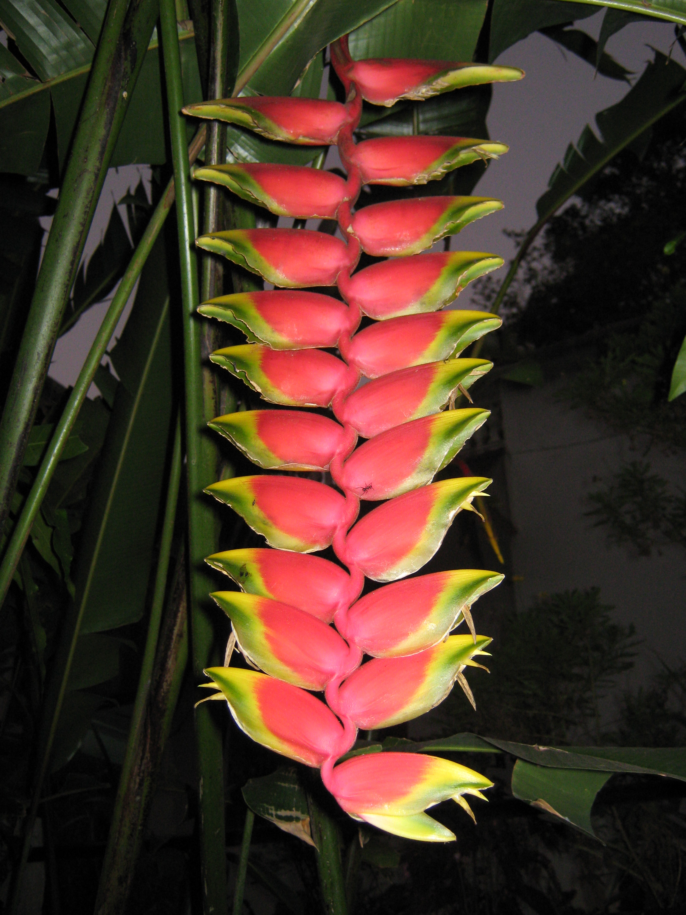 flower